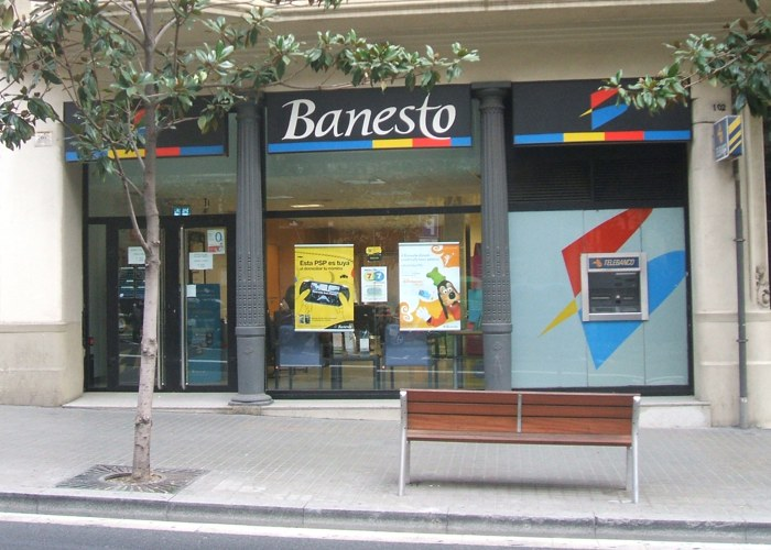 branch of Banesto Bank in Barcelona, Spain